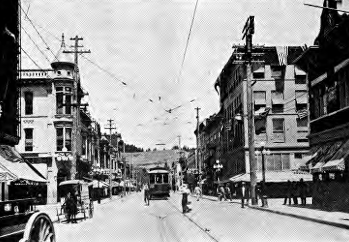 Willamette Street in Eugene.